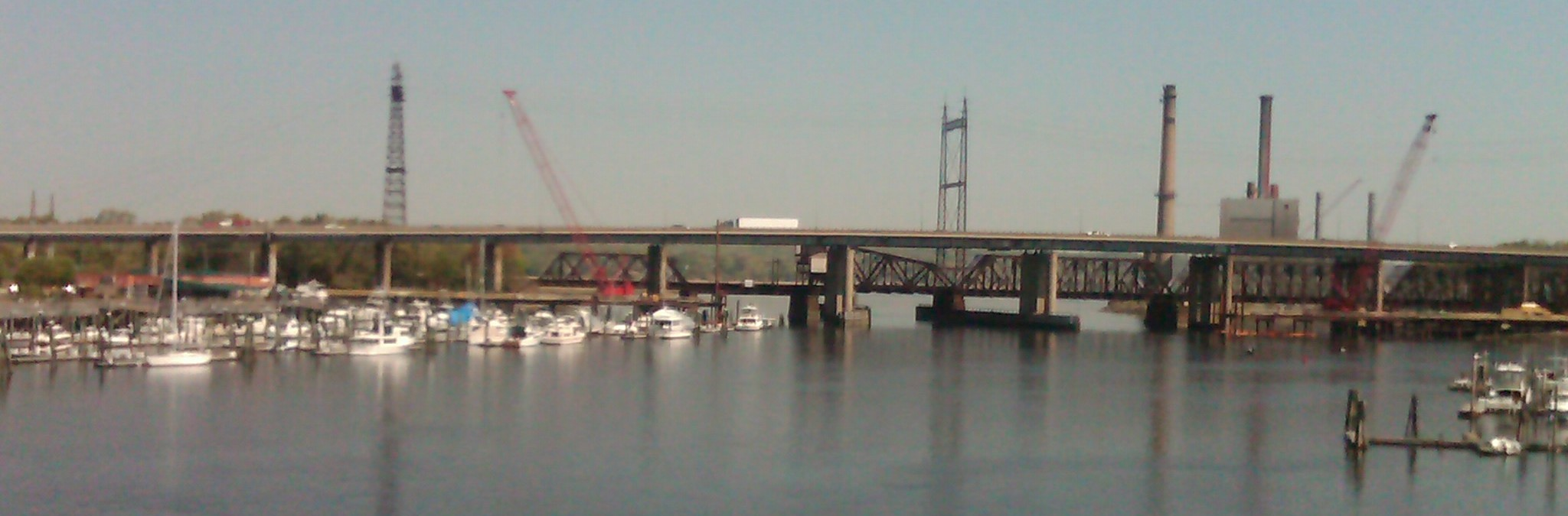 Moses Wheeler Bridge from Washington Bridge (Stratford/Milford Line, CT).